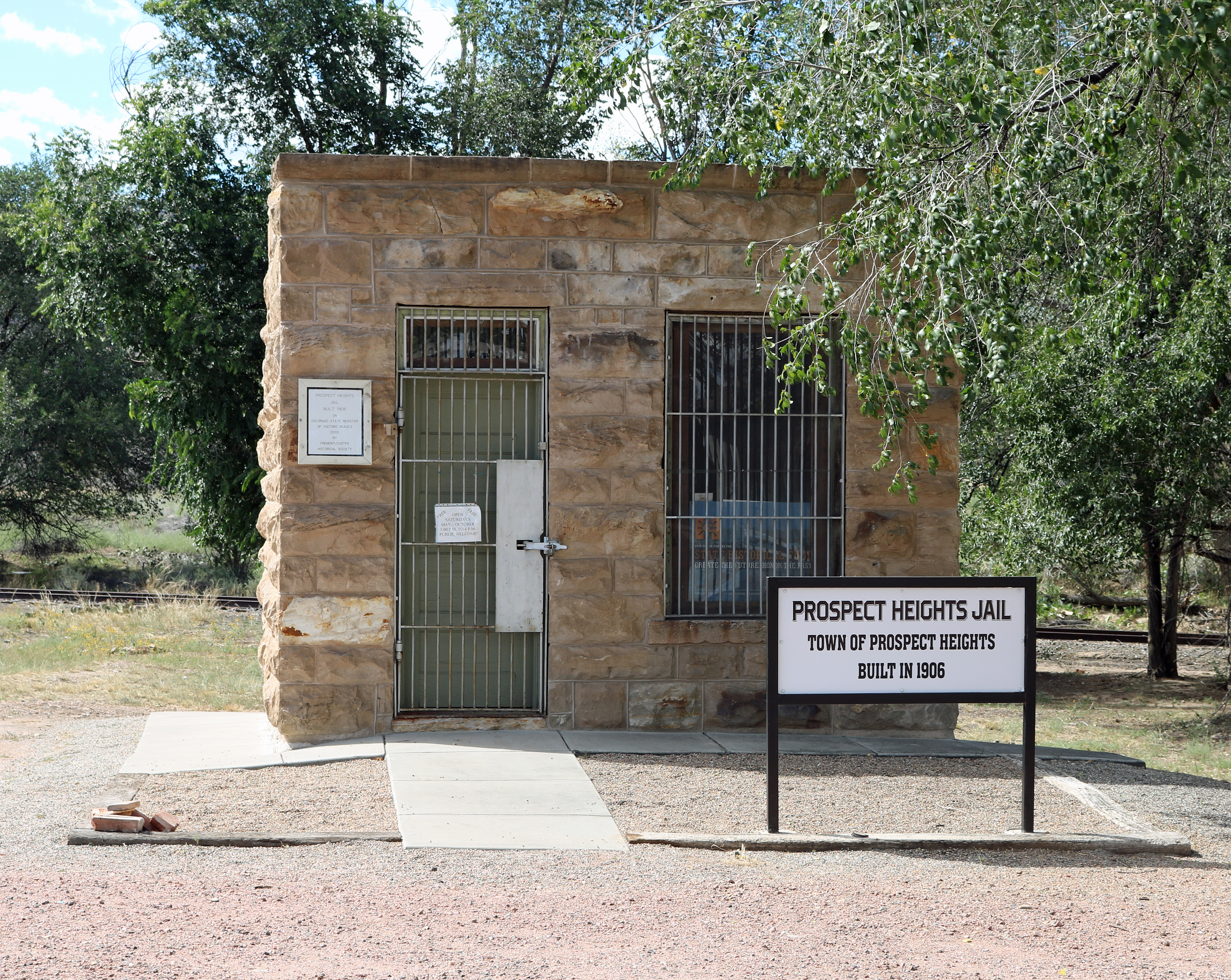 The Prospect Heights Jail in the Prospect Heights neighborhood of the Lincoln Park census-designated place in Fremont County, Colorado. The former jail's address is 1315 South 4th St, Cañon City, Colorado 81212 (but it is outside the Cañon City city limits).